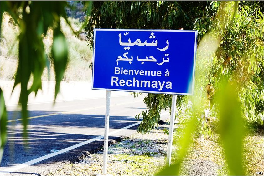 A sign by the entrance to the cedar and conifer nursery.